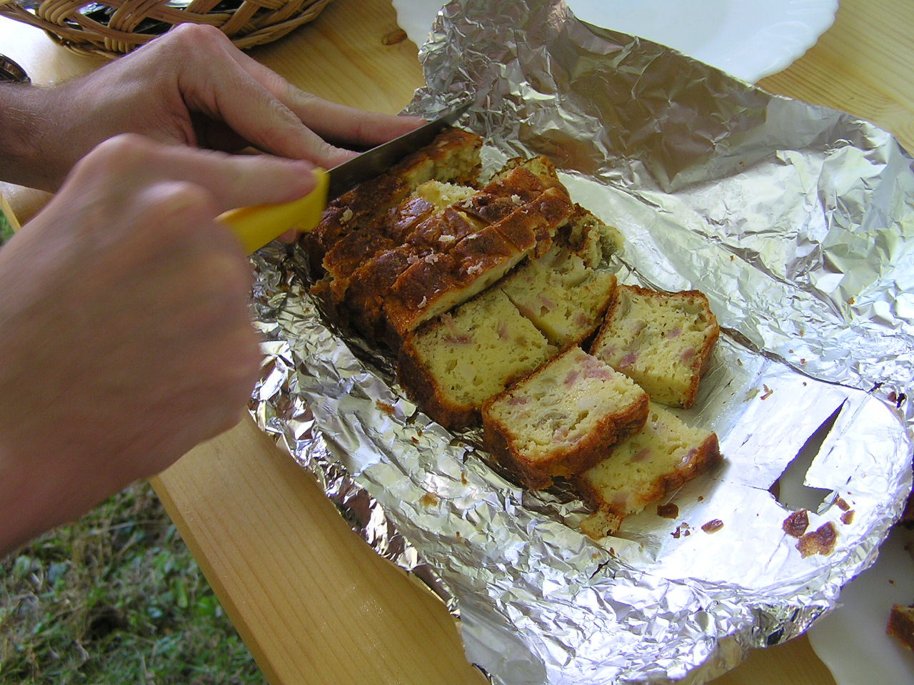 "Salt cake with ham, olive and cheese"